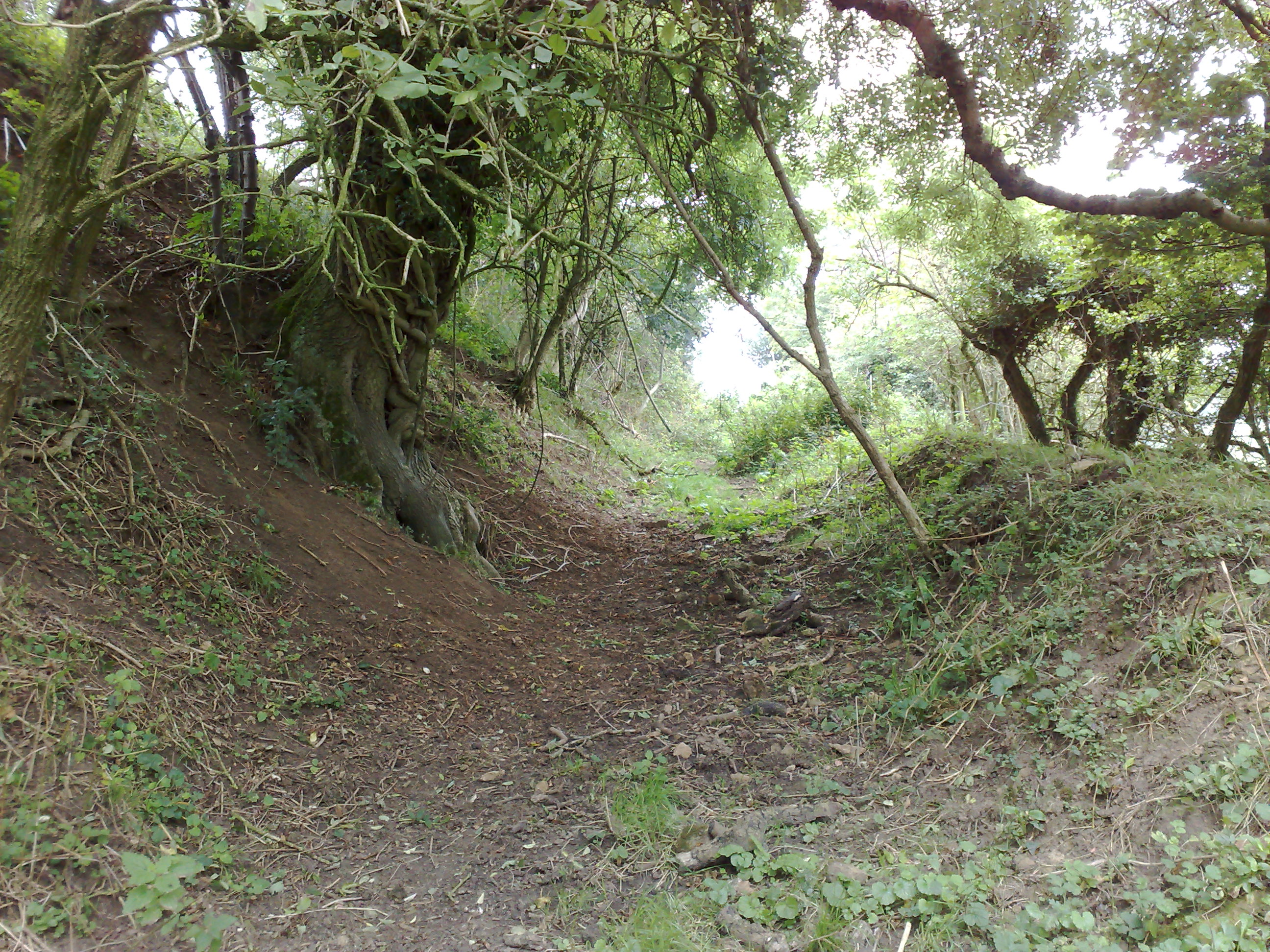 the south western escarpment of Hinton Hill, Dyrham, S. Gloucs.